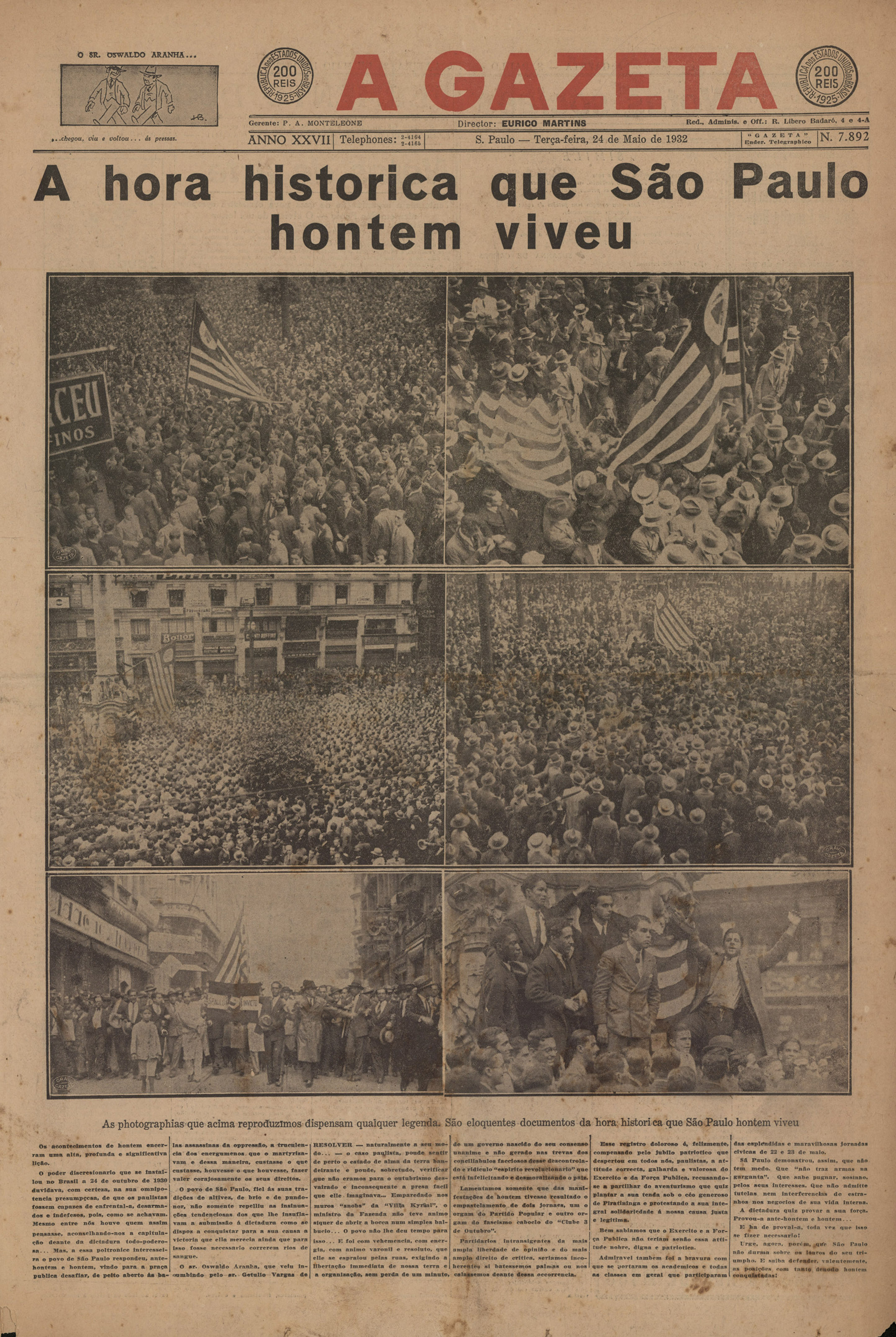 Front page of newspaper "A Gazeta" of 24th may 1932.